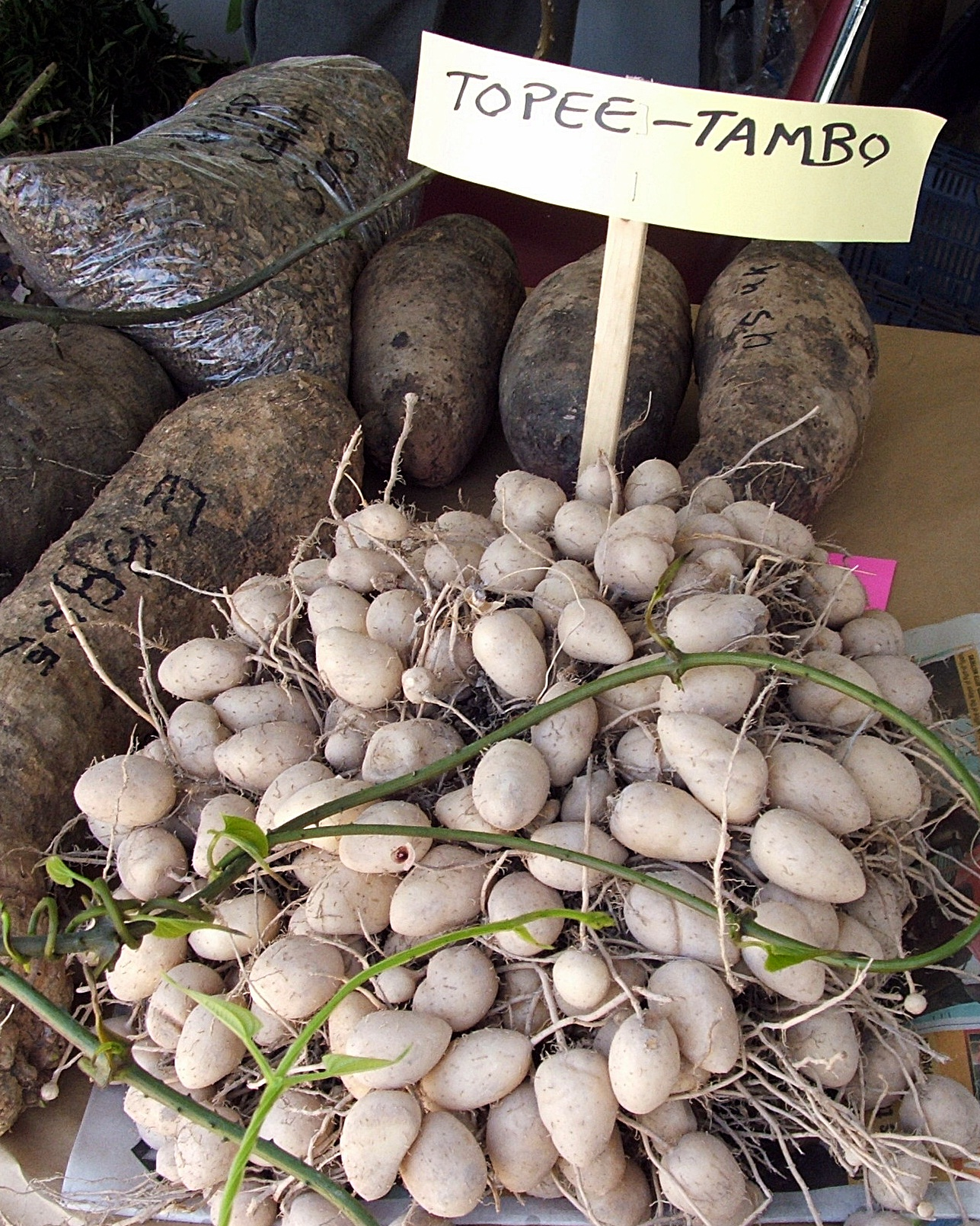 These root vegetables are boiled and eaten as a snack.